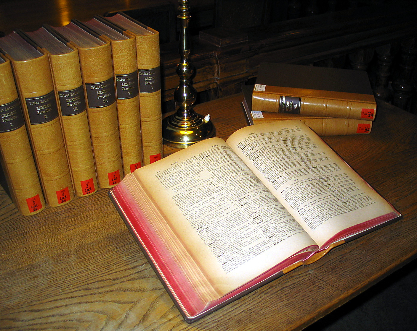 A multi-volume Latin dictionary (Egidio Forcellini: Totius Latinitatis Lexicon, 1858–87) in a table in the main reading room of the University Library of Graz. Picture taken and uploaded on 15 Dec 2005 by Dr. Marcus Gossler.